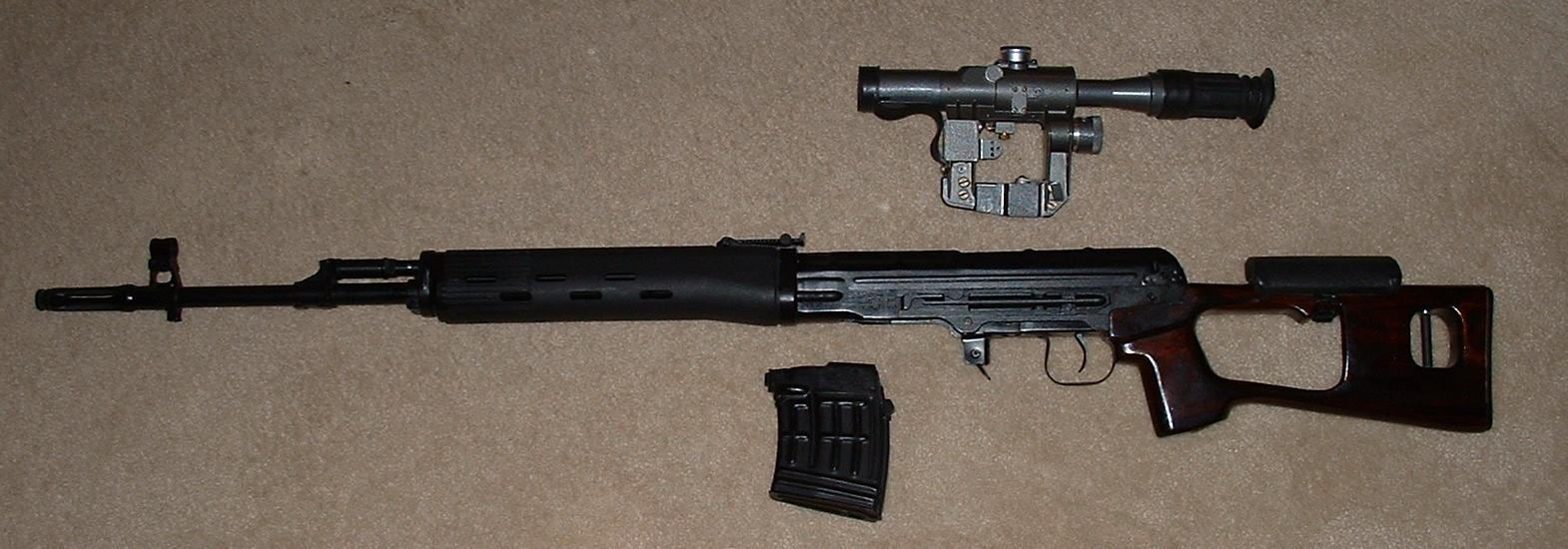 Dragunov rifle with scope and magazine removed.